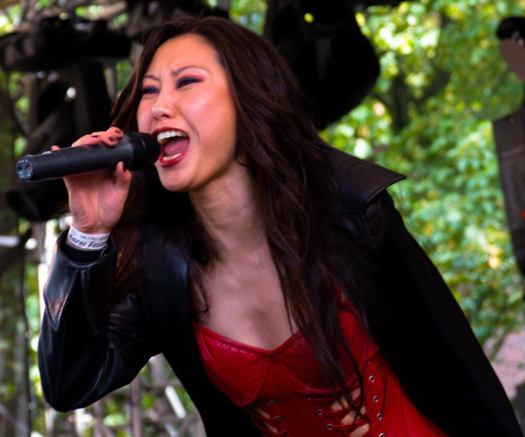 All 338 photos are available in full resolution of up to 10 MP (3872 x 2592) on